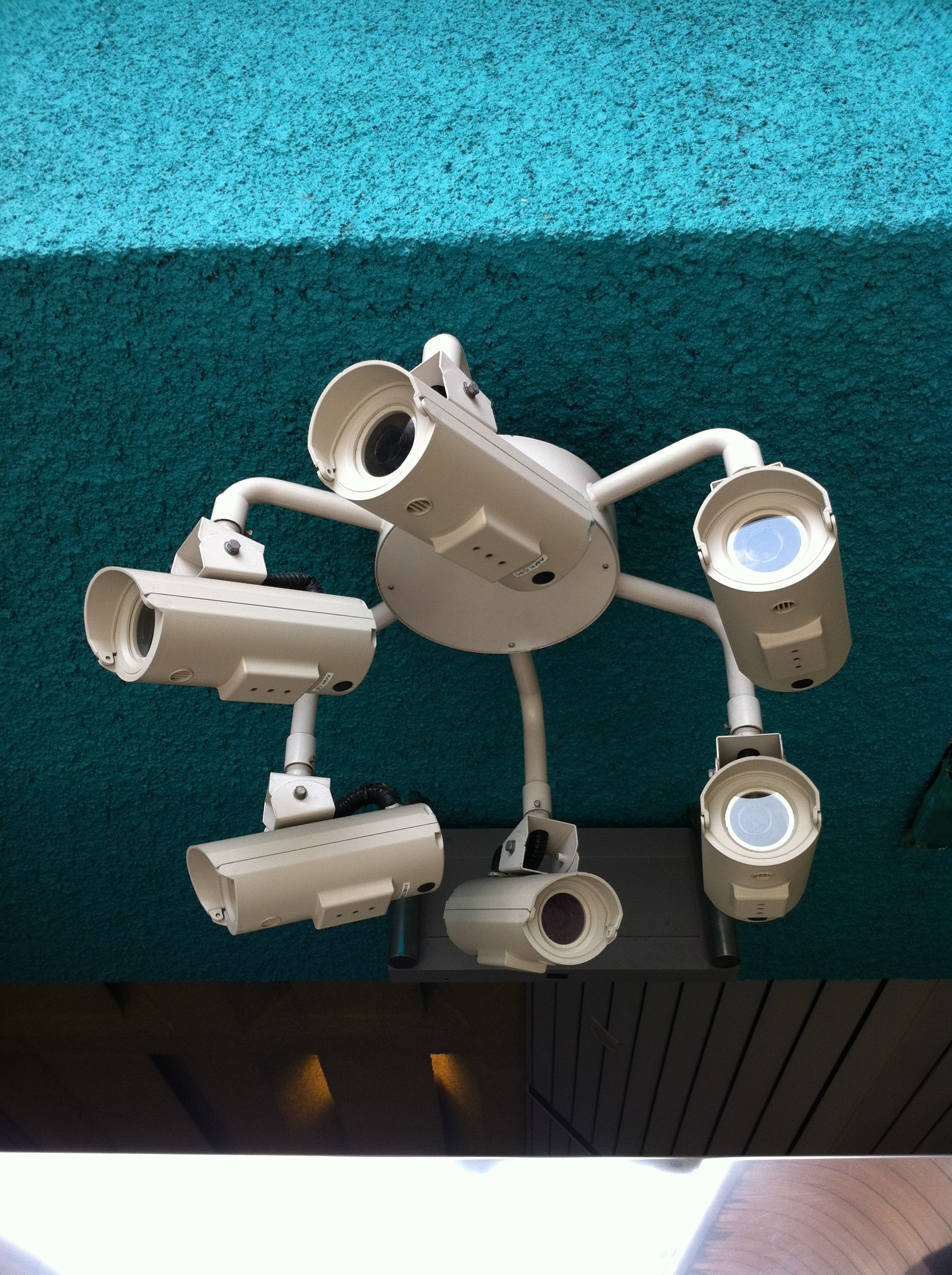 CCTV in Singaporean Mass Rapid Transport station